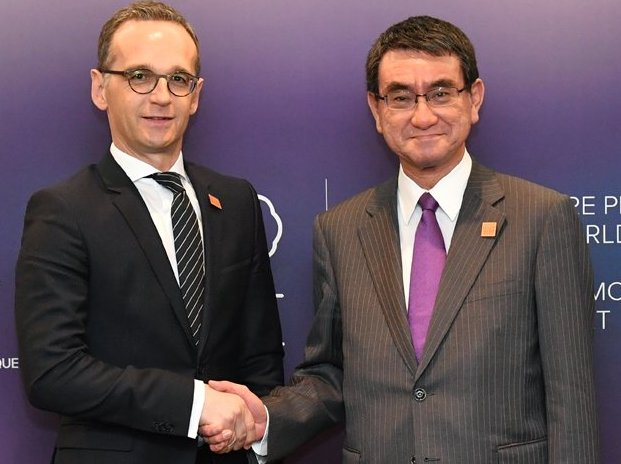 German Federal Minister for Foreign Affairs Heiko Maas and Japanese Minister for Foreign Affairs Tarō Kōno shaking hands.